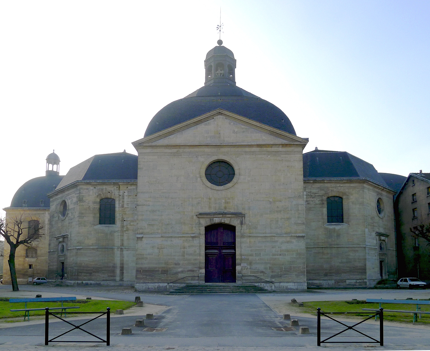 Pitié-Salpêtrière hospital - Paris